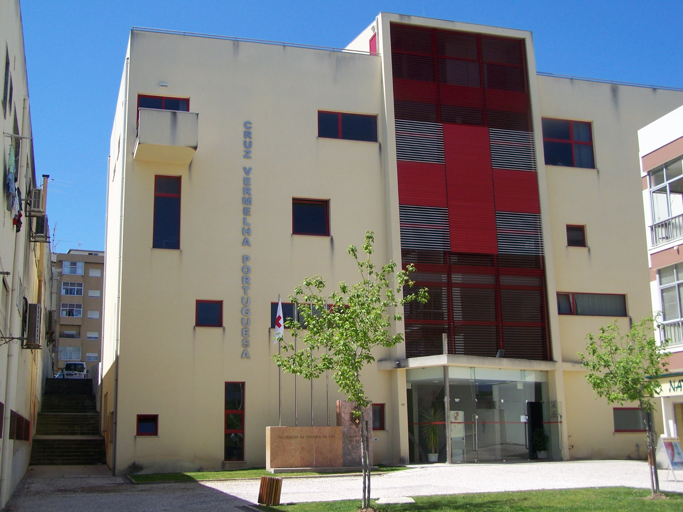 Building of the delegation of the Portuguese Red Cross in Figueira da Foz, Portugal